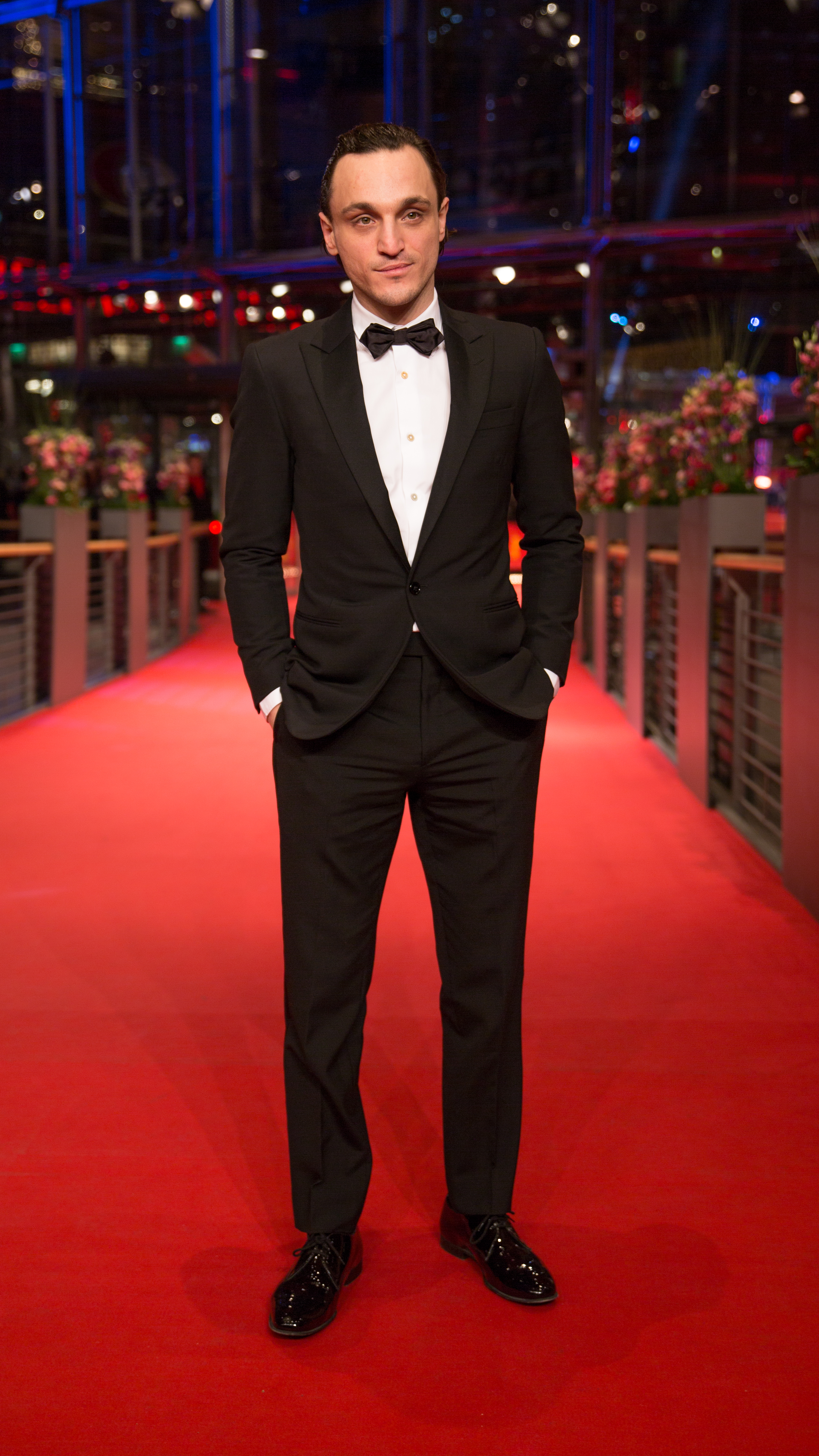 Franz Rogowski on the red carpert before the premier of the movie In den Gängen at the Berlinale 2018